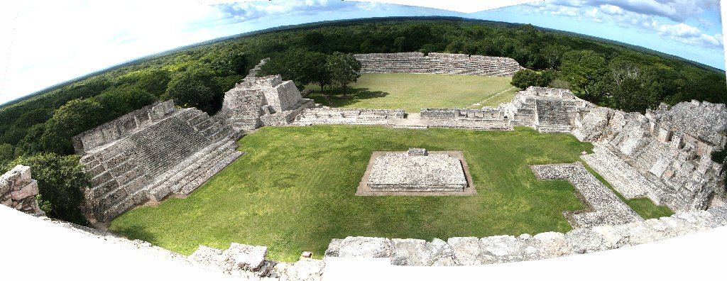 View of the historic site of Edzna from the main temple